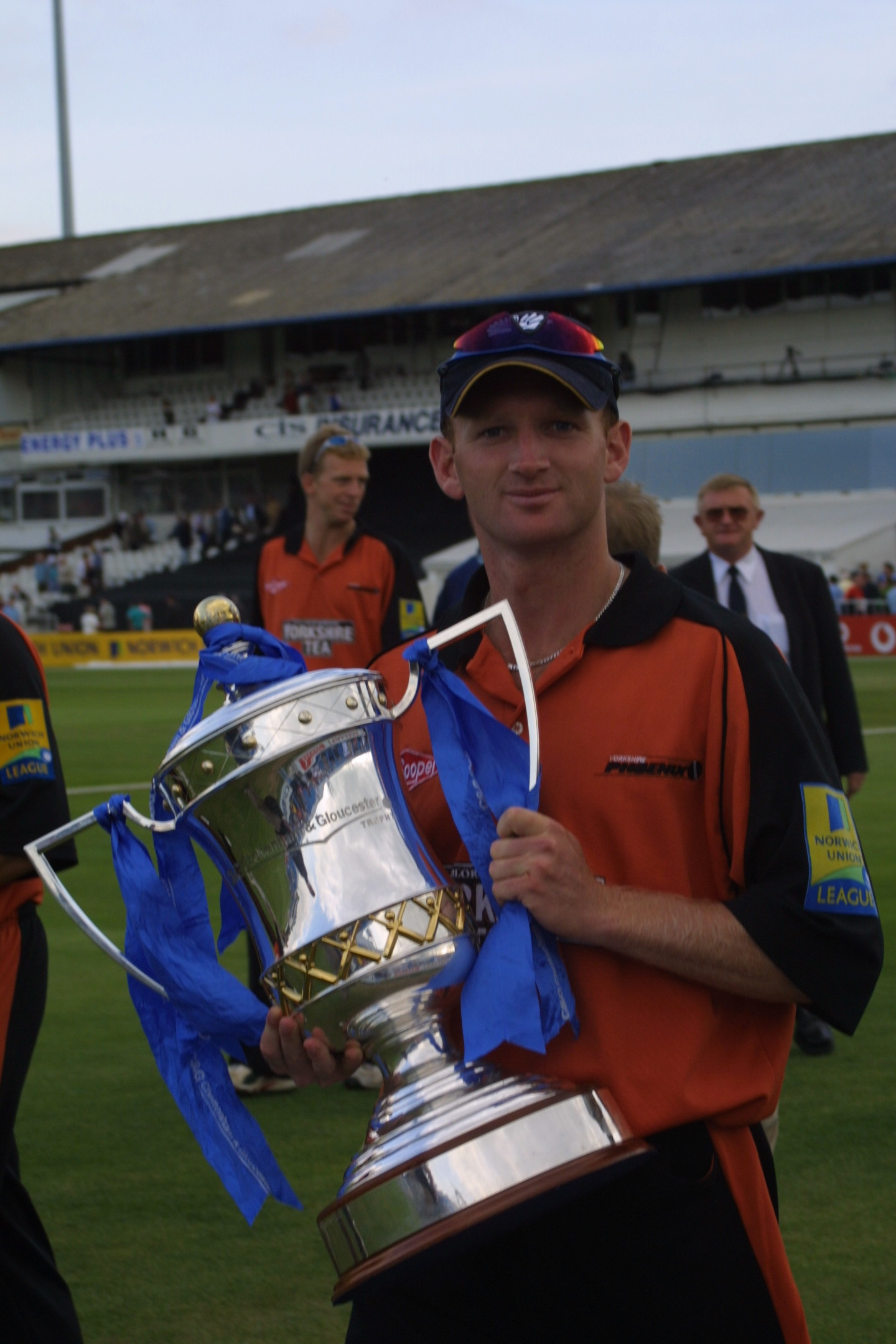 Gary Fellows of Yorkshire (YCCC) with the Cheltenham & Gloucester (C&G) Cup at Headingley